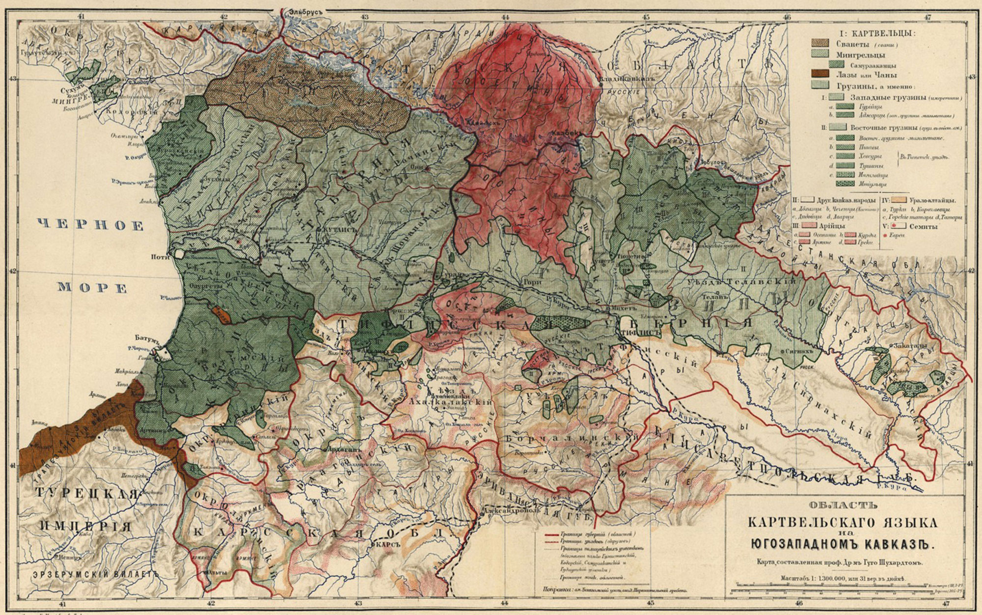 "Map of the Kartvelian languages in the South-Western Caucasus", an illustration from K.P. Yanovsky's Collection of the Materials for the Places and Tribes of the Caucasus (in Russian, 1881-1915)